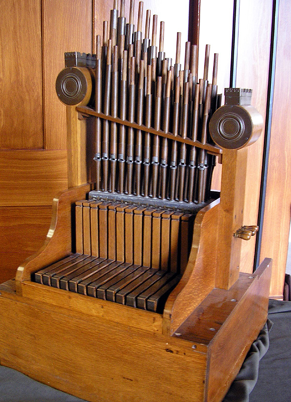 Aquincum Museum, Budapest. The new permanent exhibition.